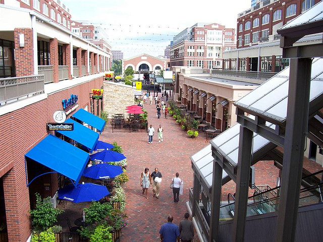 Atlantic Station coueryard